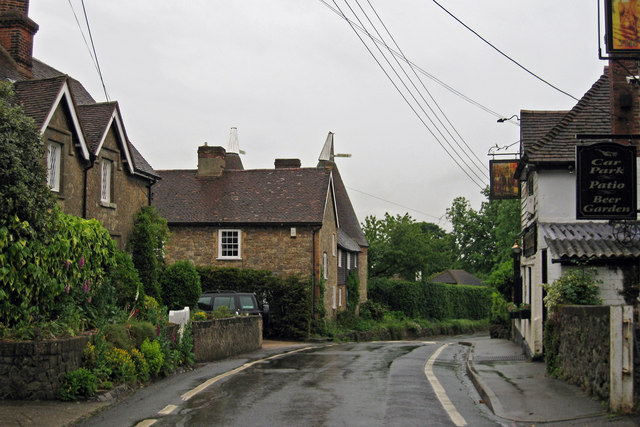 The Oast House, The Street/Taylor's Lane, Trottiscliffe, Kent